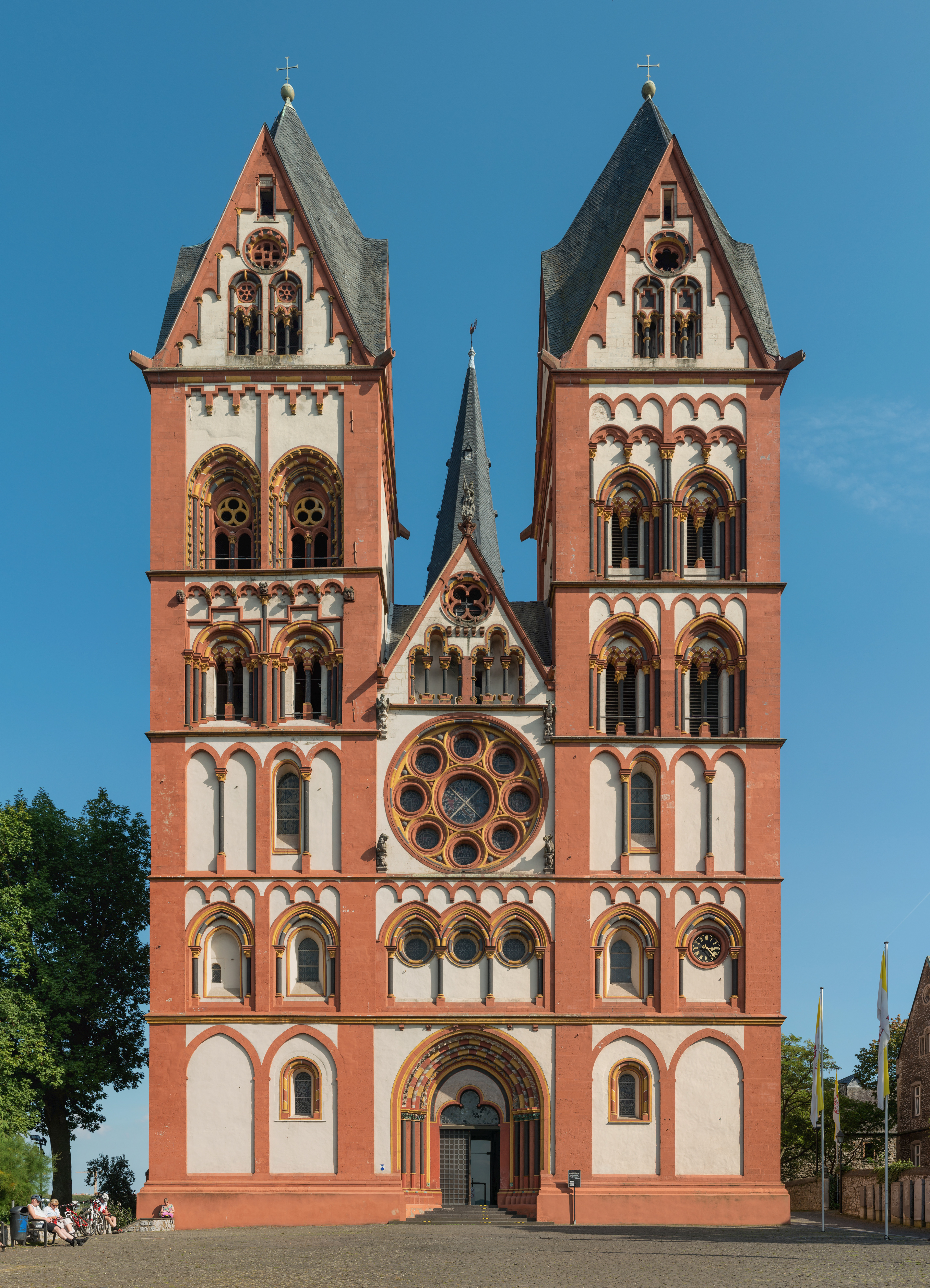 The west facade of Limburg Cathedral